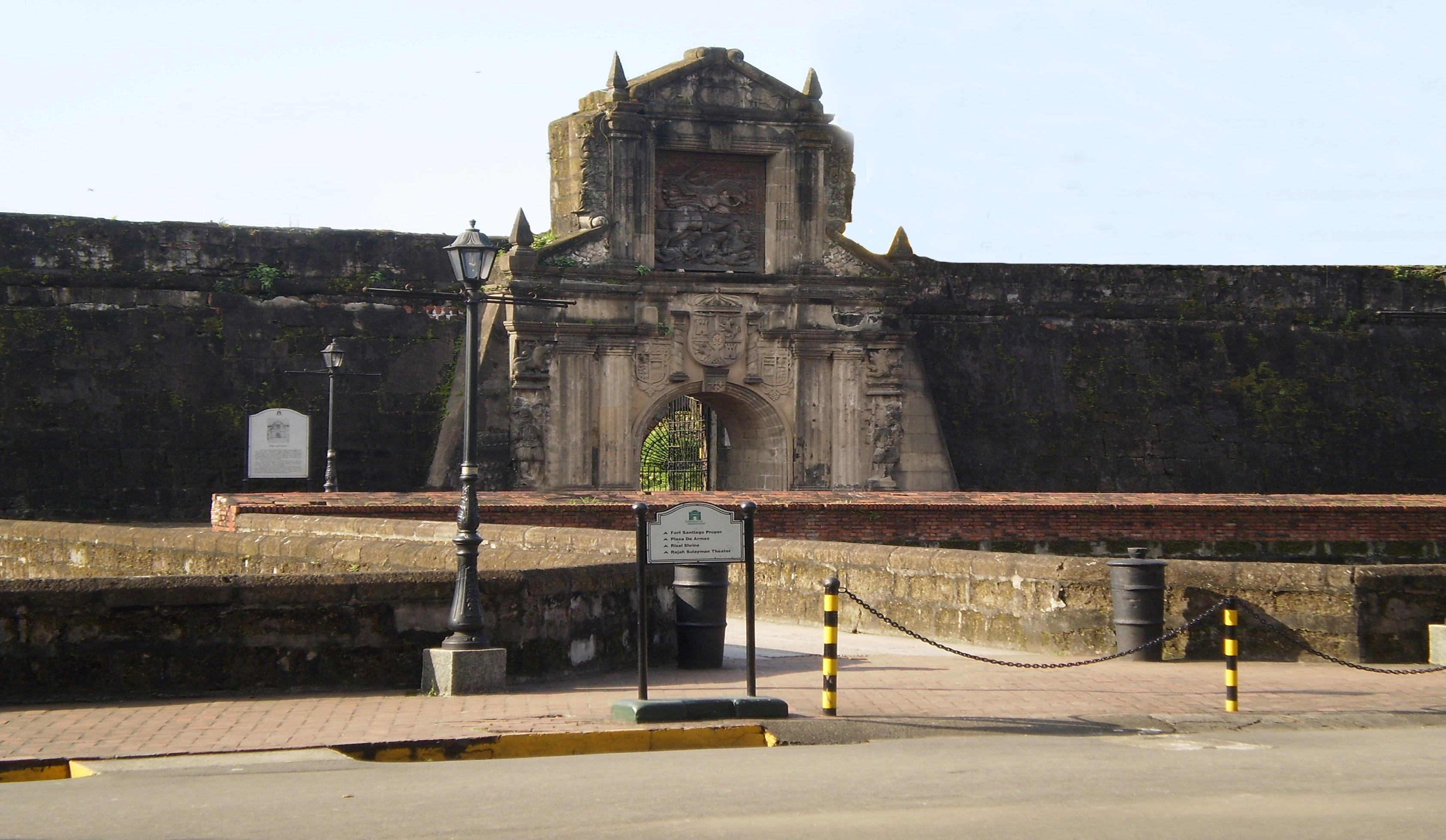 One of the oldest fortresses in the Philippines is The Fort Santiago located at Intramuros, Philippines